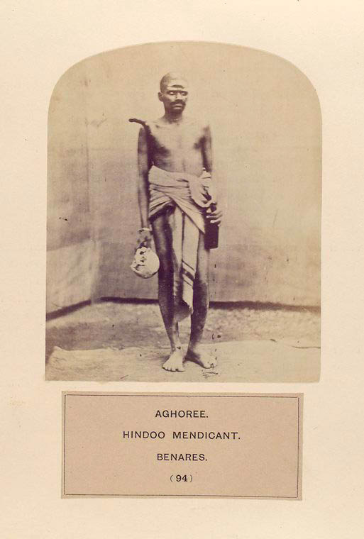 "Aghoree, Hindoo mendicant, Benares"